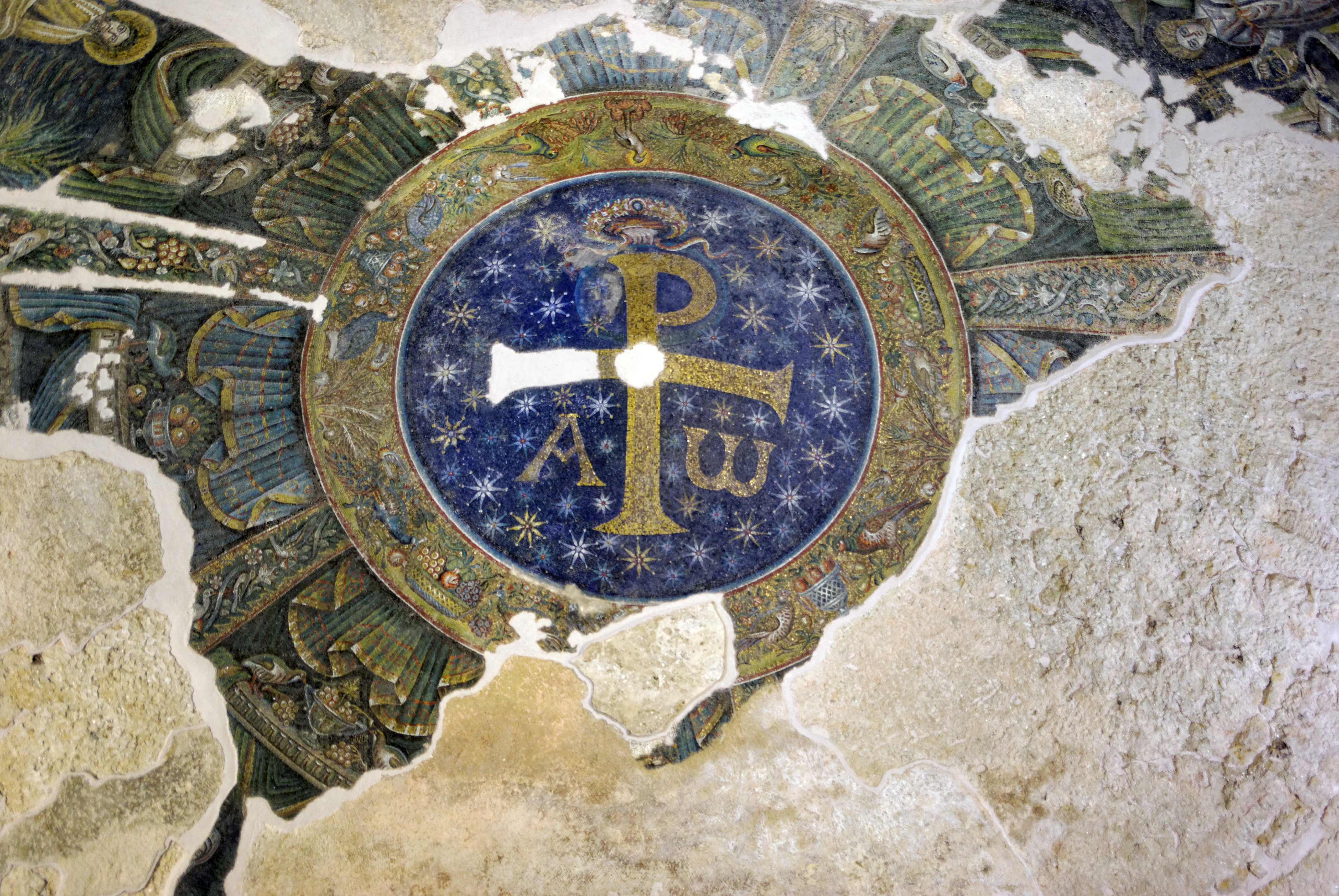 Naples, cathedral, Batistery of San Giovanni in Fonte